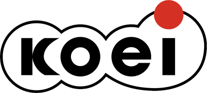 Koei logo.